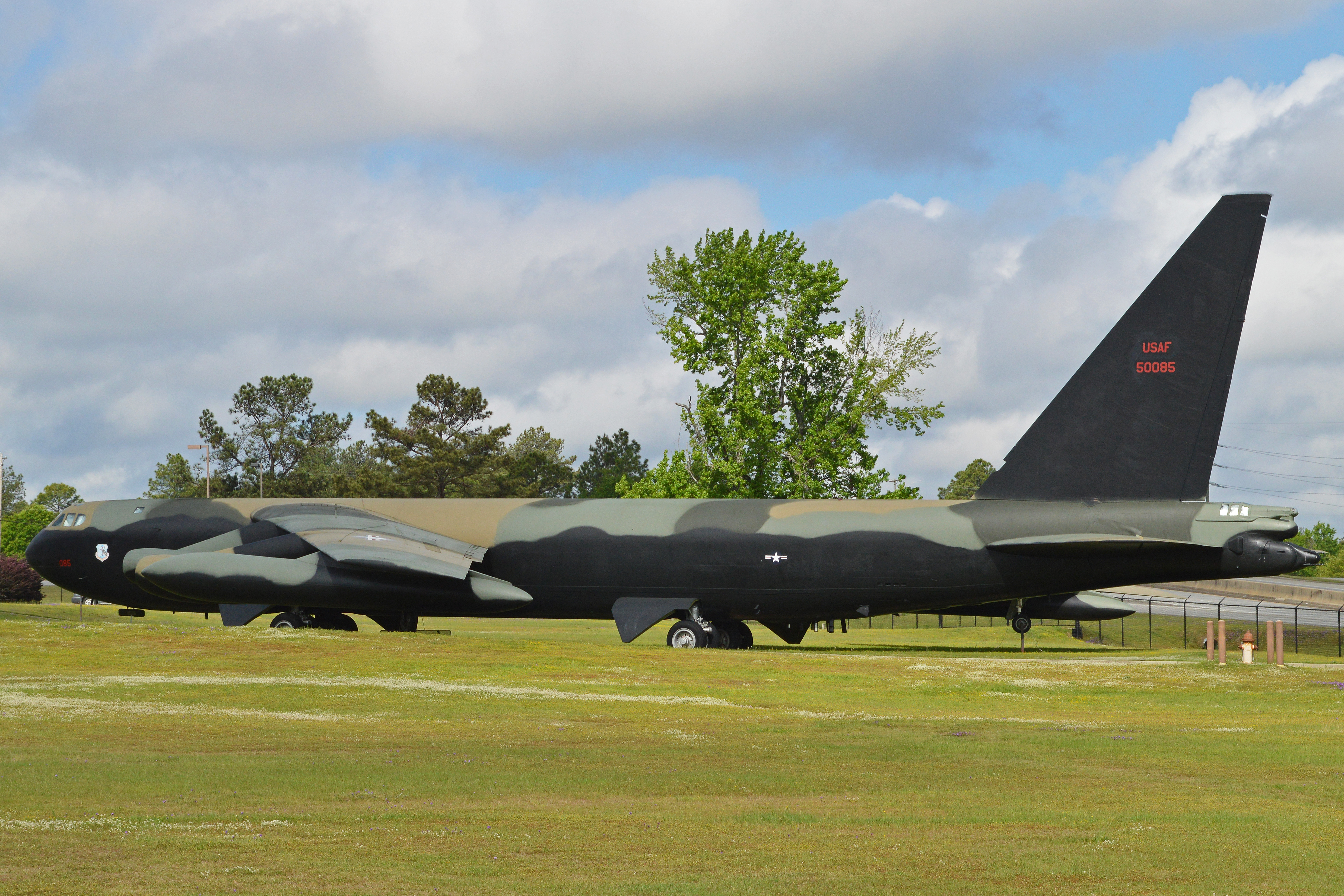 Sadly, this stunning looking Vietnam veteran is going to be broken up. Any large aircraft displayed outside is going to deteriorate, and despite the tidy paint job this 'Buff' is now in a condition which is too far gone for the museum to continue maintaining it. Doubtless when the 'H' models are retired, one will be allocated here as a replacement. Full serial 55-0085. c/n 17201. On display at the Warner Robins Museum of Aviation. Georgia, USA. 18-4-2013